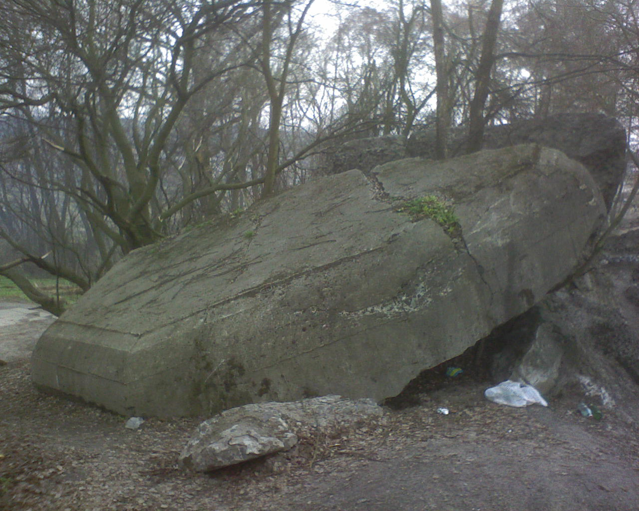 Bunker Number 179 near village Vita-Pochtovaya (close to Kiev) belonging to the Kiev Fortified District. It was destroyed by during the German assault on Kiev on 4.8.1941.